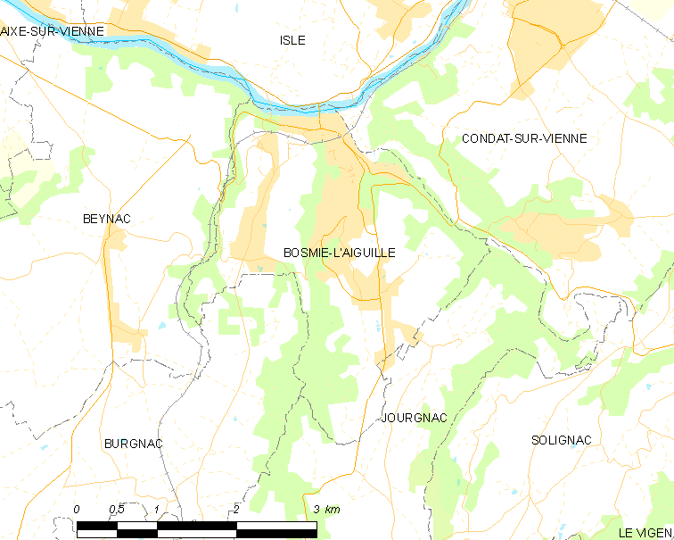 Map of French municipality Bosmie-l'Aiguille